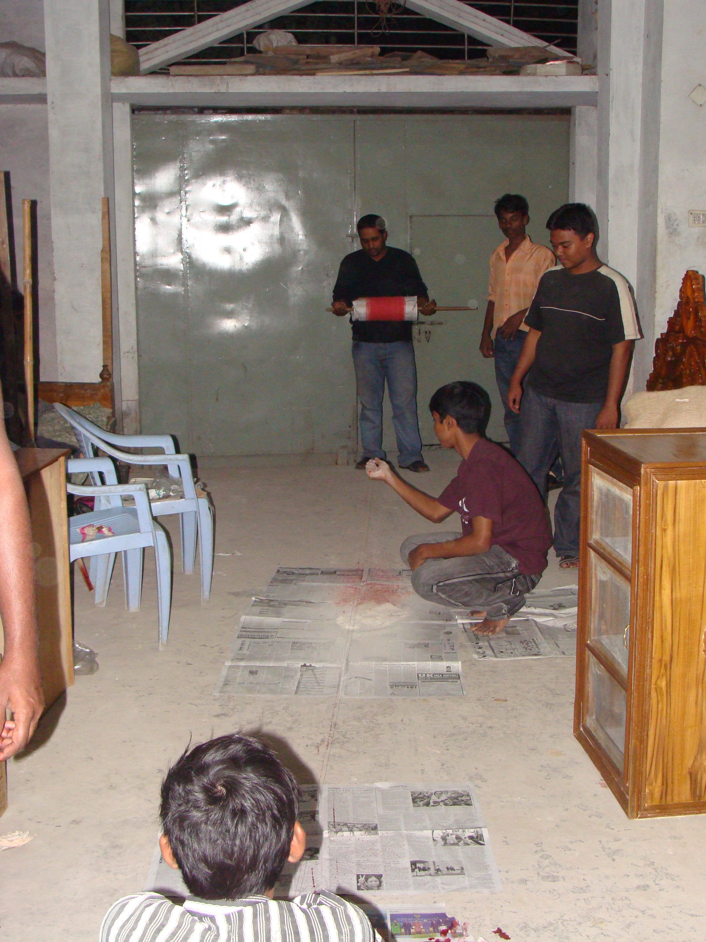 People applying Manja to Kite strings.